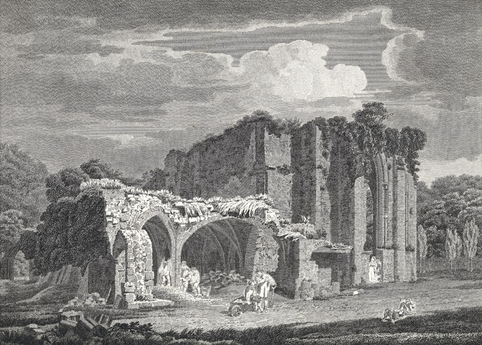 A view of the ruins of Margam Abbey with workmen in the foreground possibly restoring the Abbey.